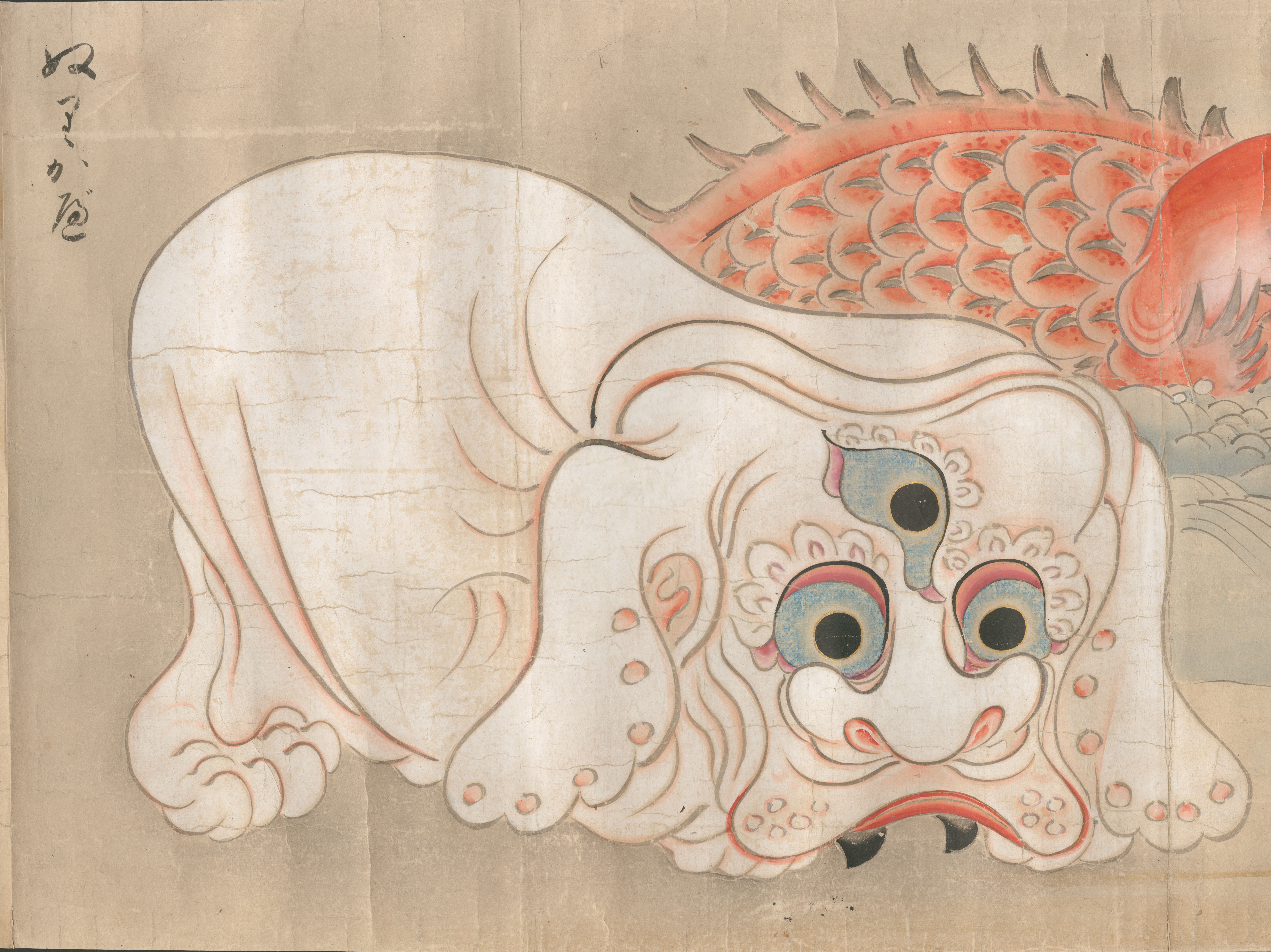 Nurikabe from the Bakemono no e scroll in the Harry F. Bruning Collection of Japanese books and manuscripts at Brigham Young University.